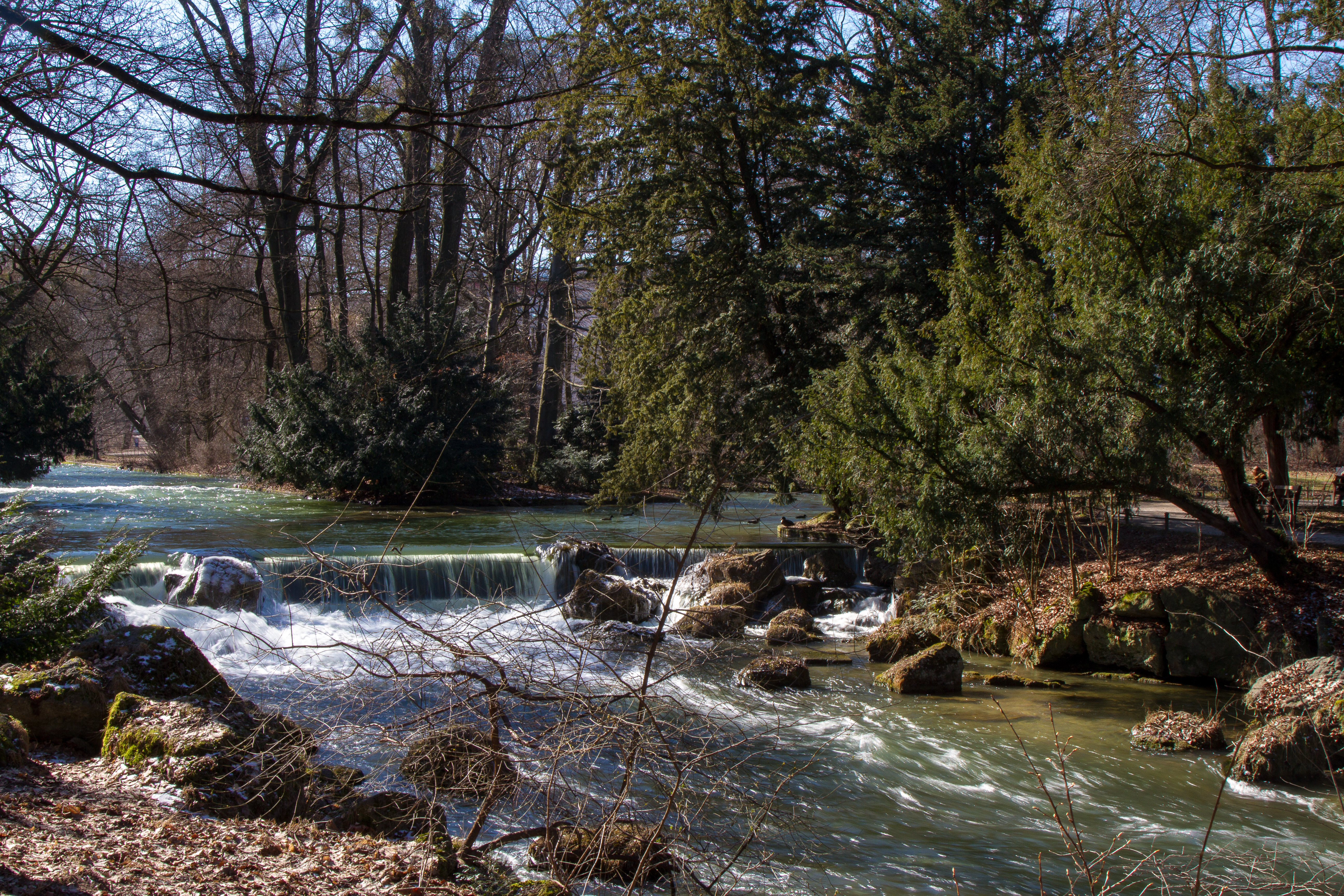 This is a photograph of an architectural monument.